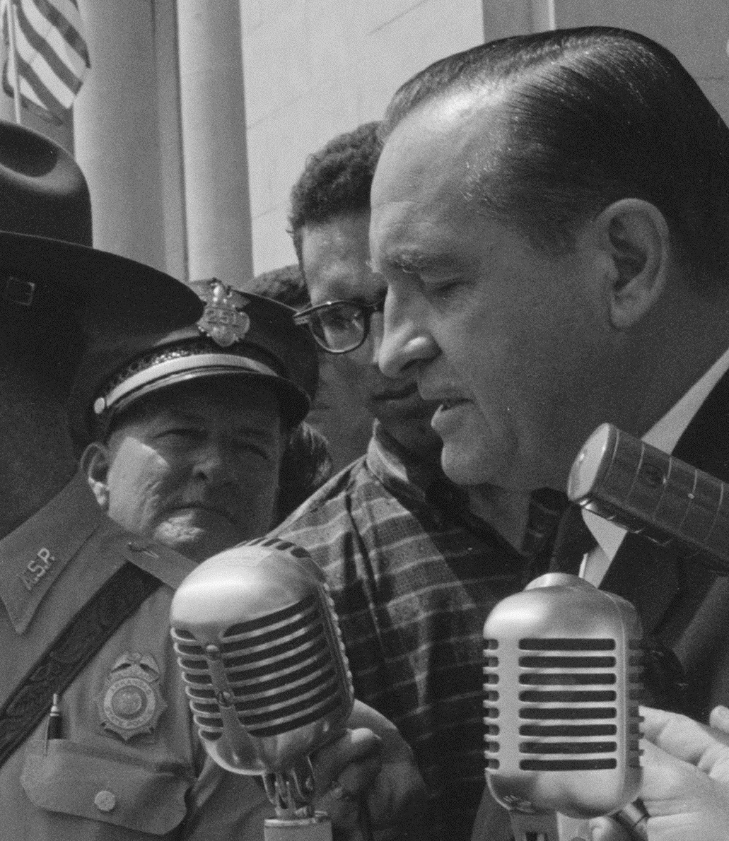 Little Rock, 1959. Rally at state capitol. Photograph shows a group of people, one holding a Confederate flag, surrounding speakers and National Guard, protesting the admission of the "Little Rock Nine" to Central High School.